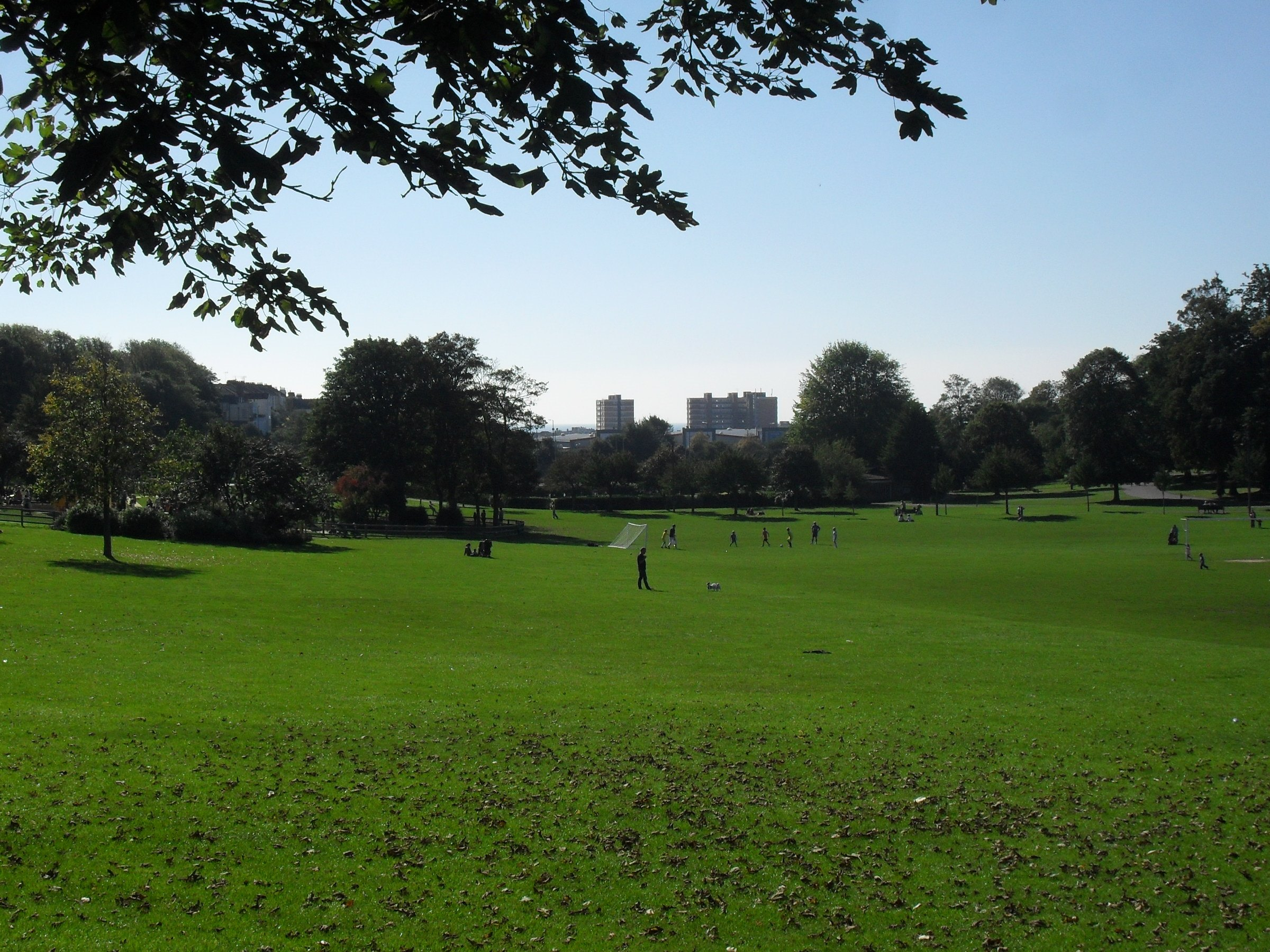 A southward view across Hove Park in Hove, part of the English city of Brighton and Hove. The English Channel can be seen in the distance.